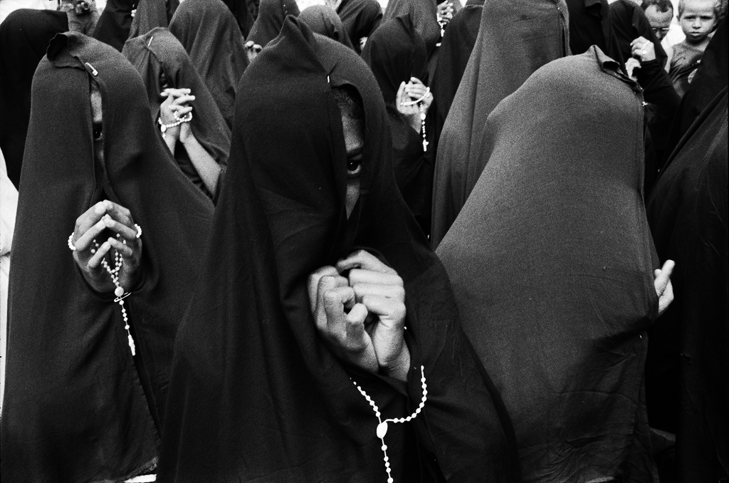 Sergipe, Brazil, 2004. Penitentes. Ritual. Foto Guy Veloso. Gelatin silver print.